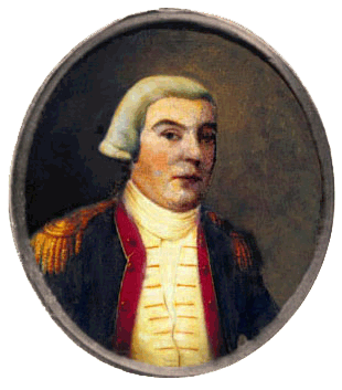 Col. Thomas Crafts Jr. Portrait Miniature